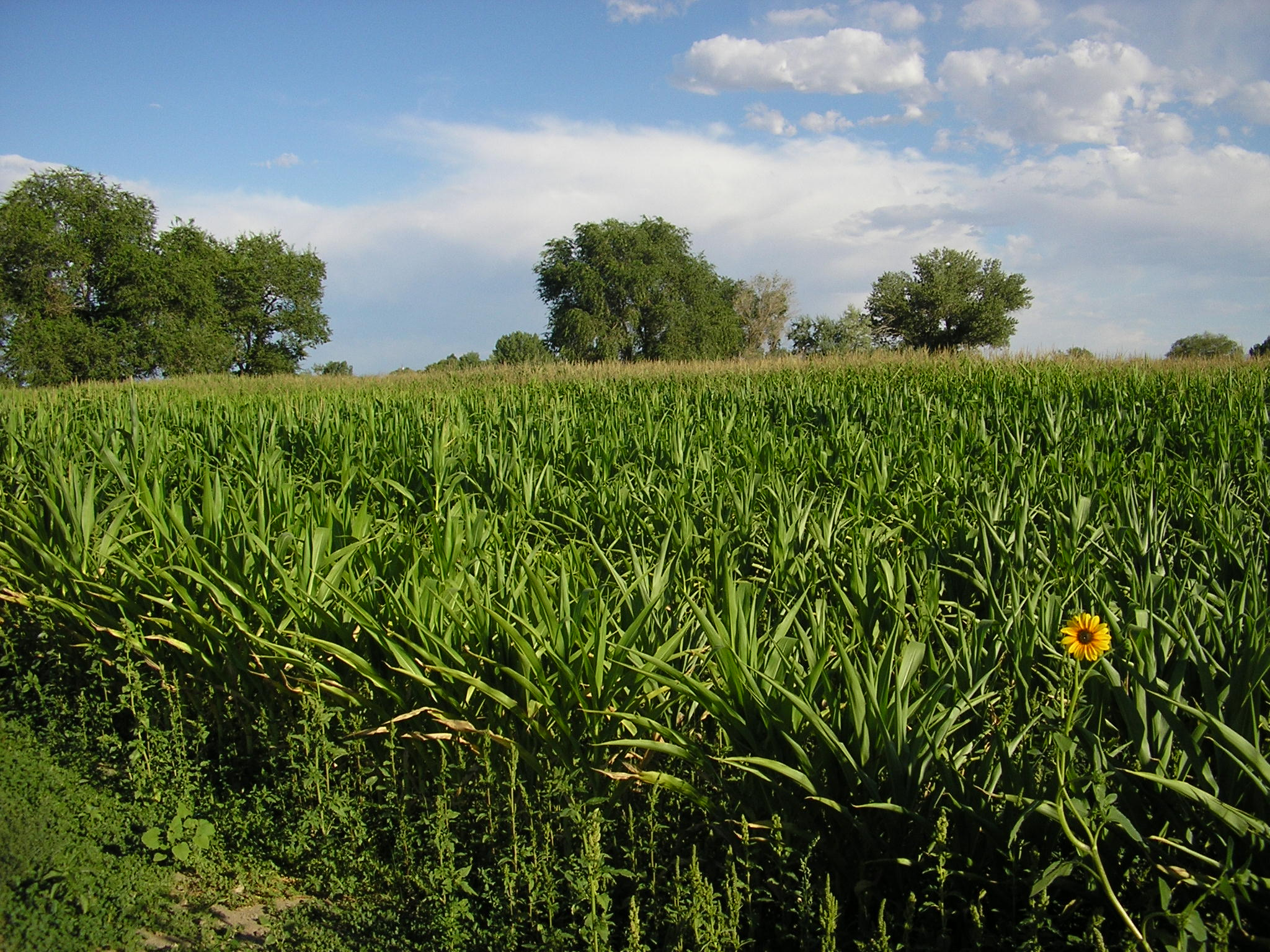 Image of corn field in Fallon, in August 1, 2004.